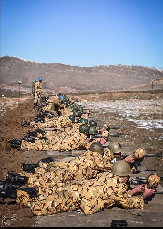 Soldiers in Kermanshah, Iran